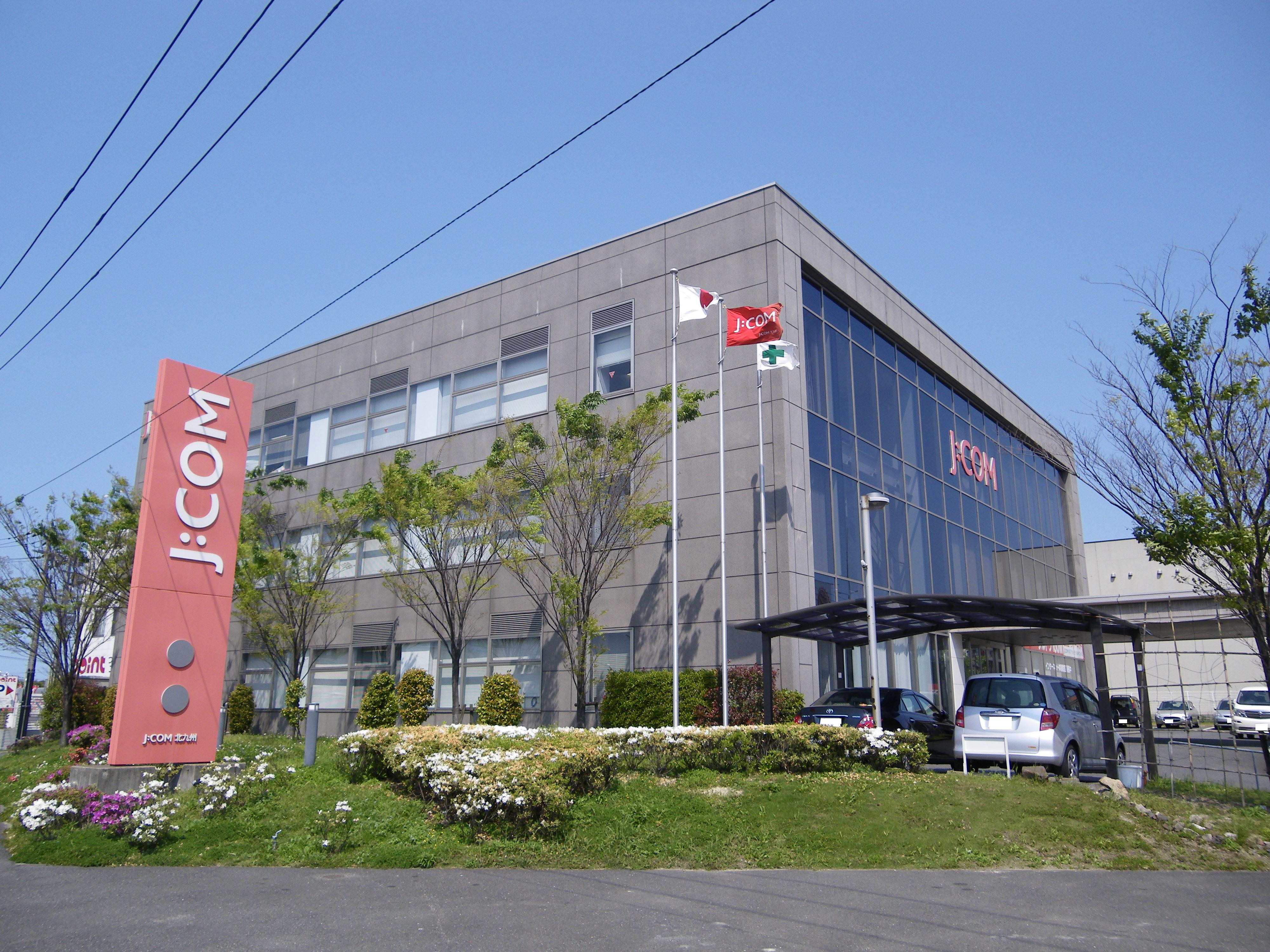 J：COM Kitakyushu Co., Ltd.